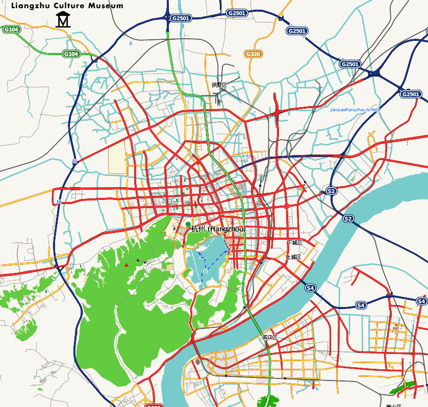 This map may be incomplete, and may contain errors. Don't rely solely on it for navigation.